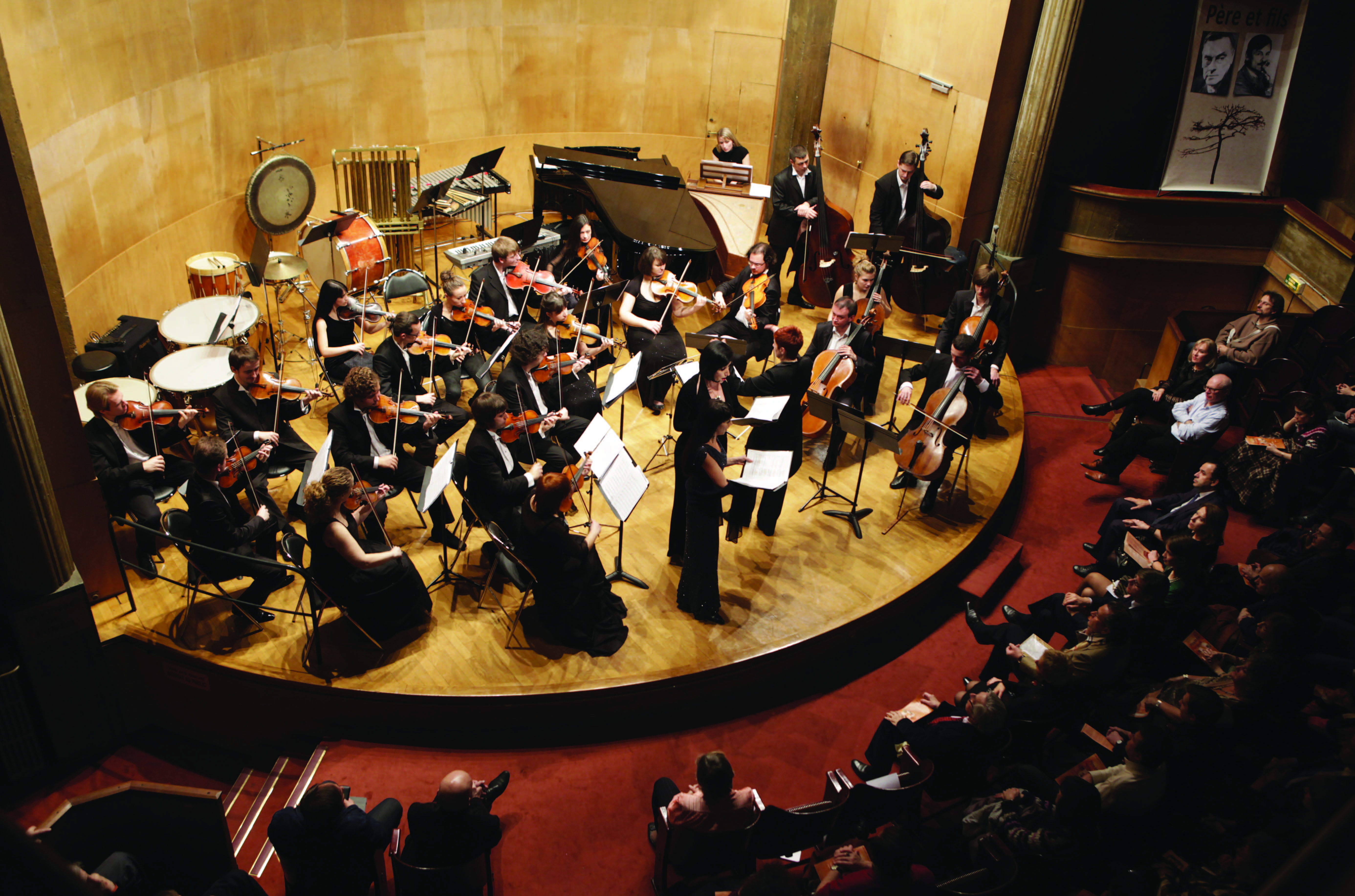 New Era Orchestra, Cortot Hall, École normale de musique de Paris, France.